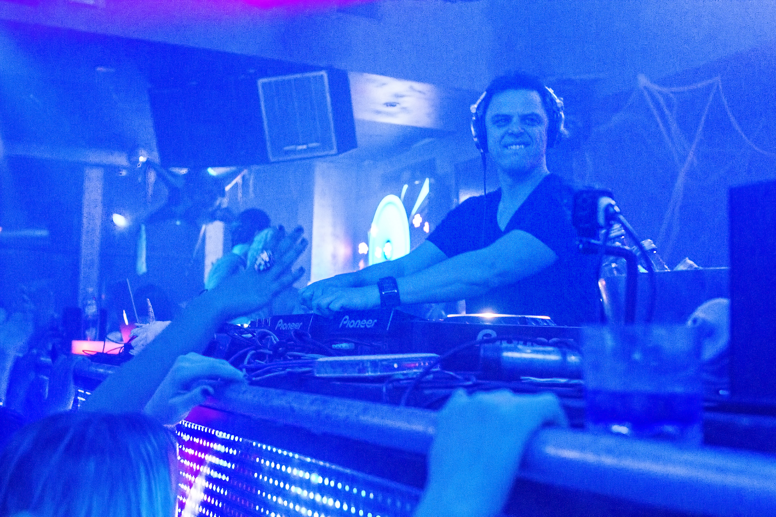 Markus Schulz at the Sutra club in Orange County, California.